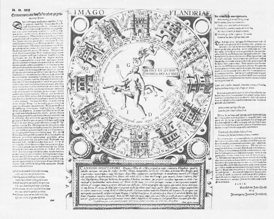 „Imago Flandriae“, Flyer of Matthias Quad von Kinckelbach (1557–1613), Arnheim: Johannes Jannson, 1604 (Germanisches Nationalmuseum Nuremberg, Inv.-Nr. HB 312)